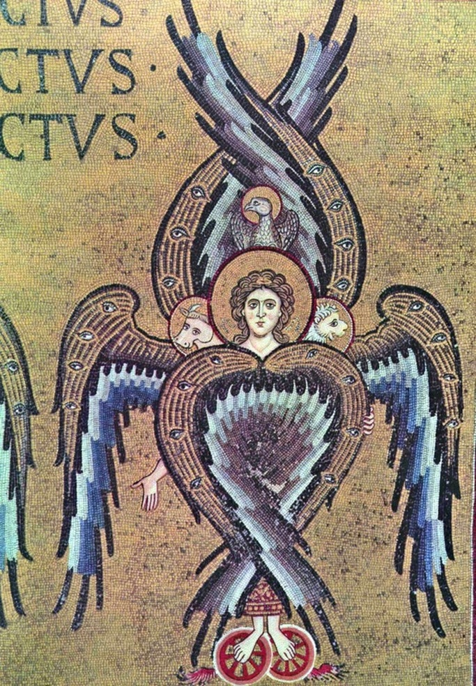 Mosaic in Monreale Cathedral, Palermo, Sicily. (12th Century)